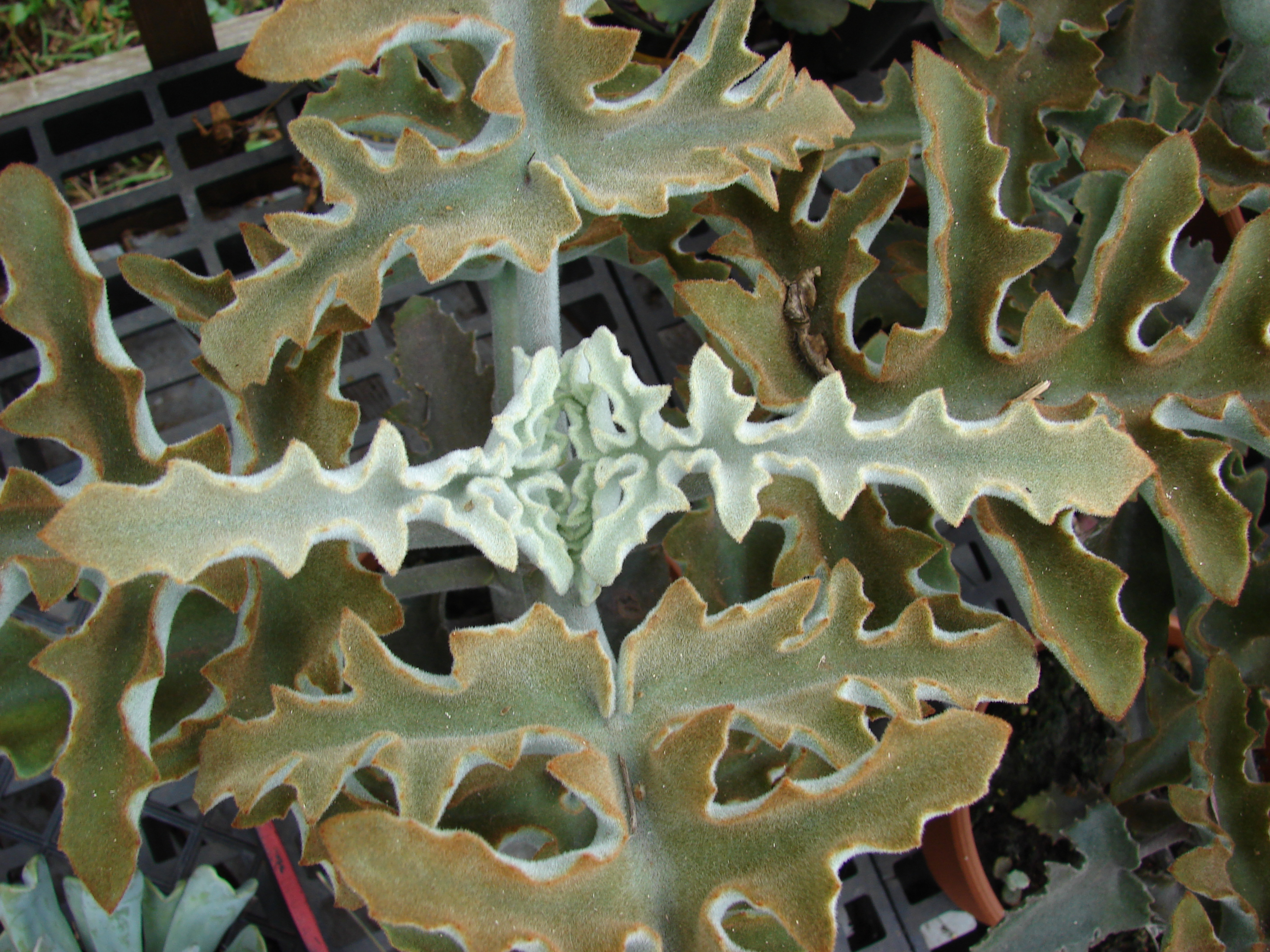 Kalanchoe beharensis (leaves). Location: Maui, Kula Ace Hardware and Nursery